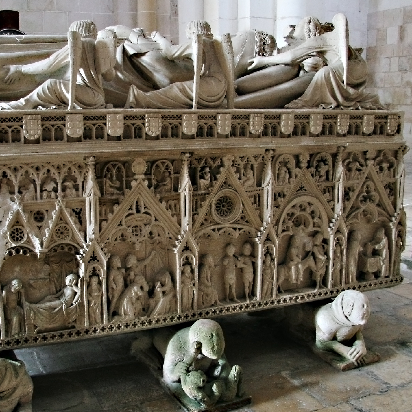 Tomb of Inês de Castro in the church of the Alcobaça Monastery, Portugal